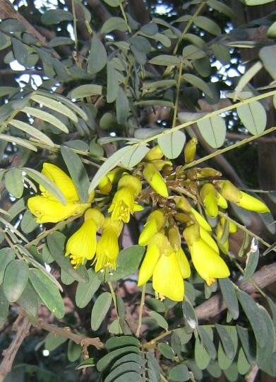 Sophora macrocarpa ex hortus flower details